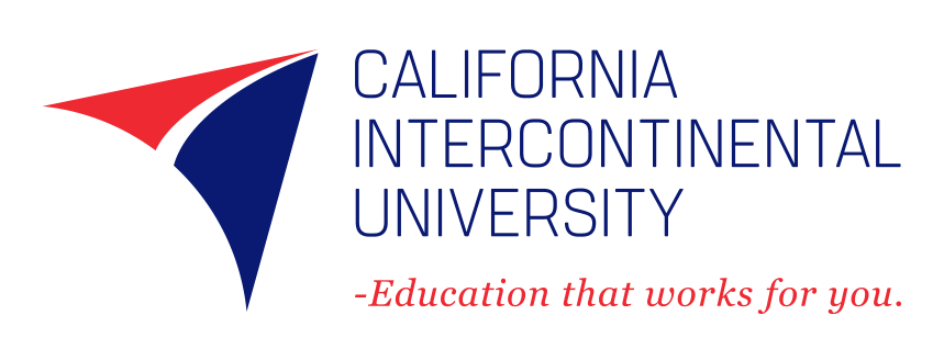 Logo of California Intercontinental University. This logo was created and trademarked by California Intercontinental University in October of 2016.